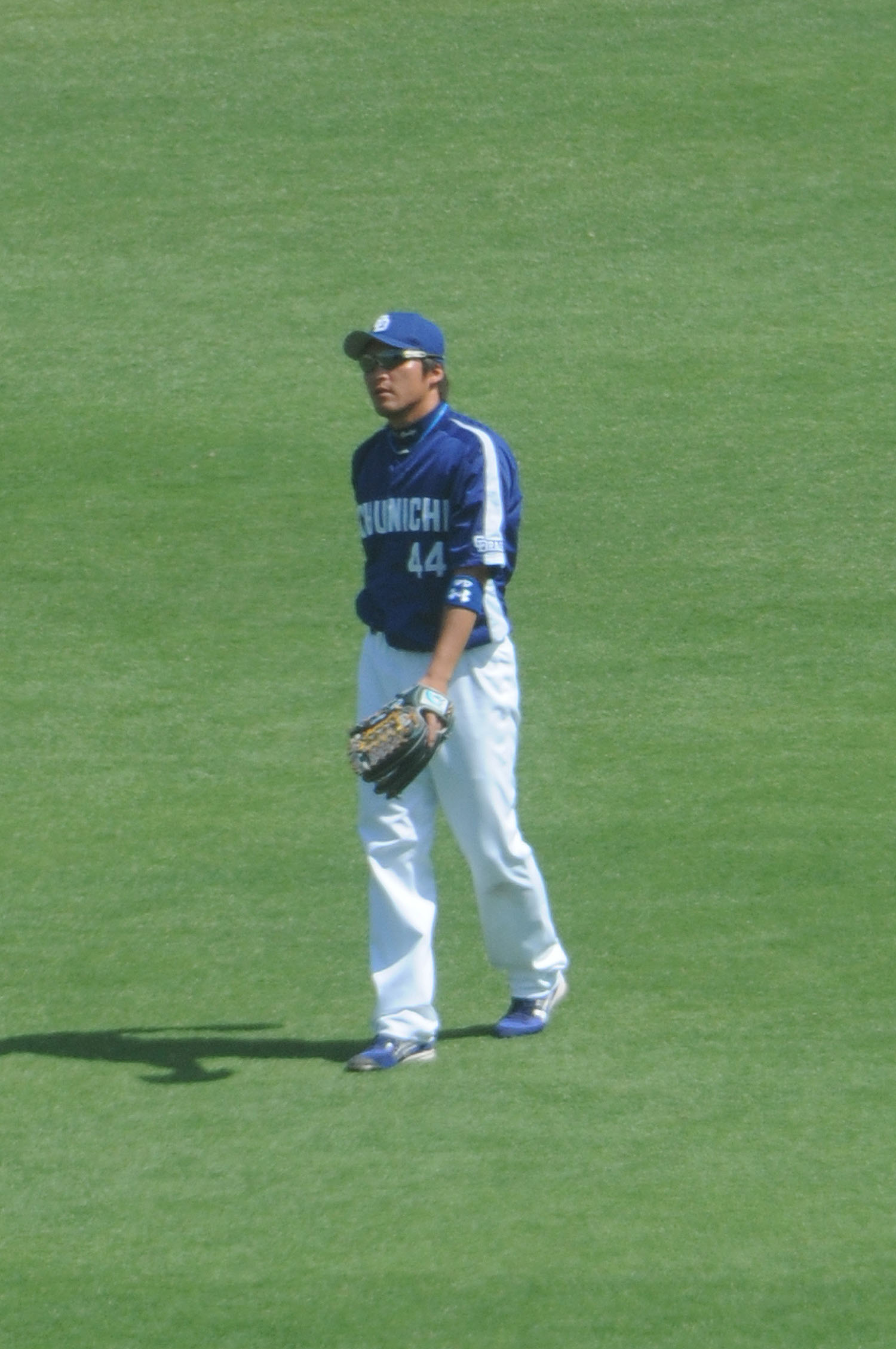 Masaaki Koike, outfielder of the Chunichi Dragons, at Mazda Stadium.